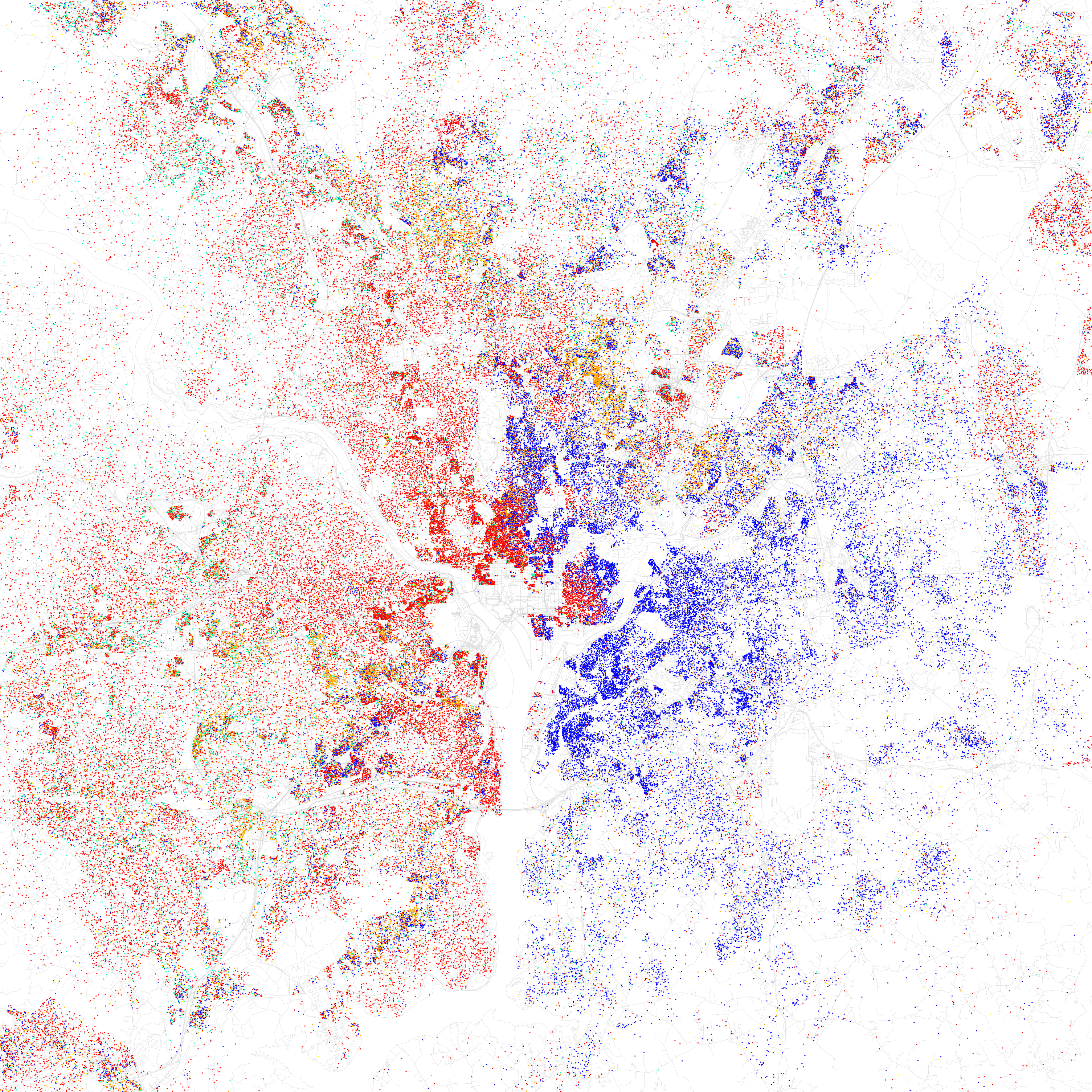 Maps of racial and ethnic divisions in US cities, inspired by Bill Rankin's map of Chicago, updated for Census 2010. Red is White, Blue is Black, Green is Asian, Orange is Hispanic, Yellow is Other, and each dot is 25 residents. Data from Census 2010. Base map © OpenStreetMap, CC-BY-SA